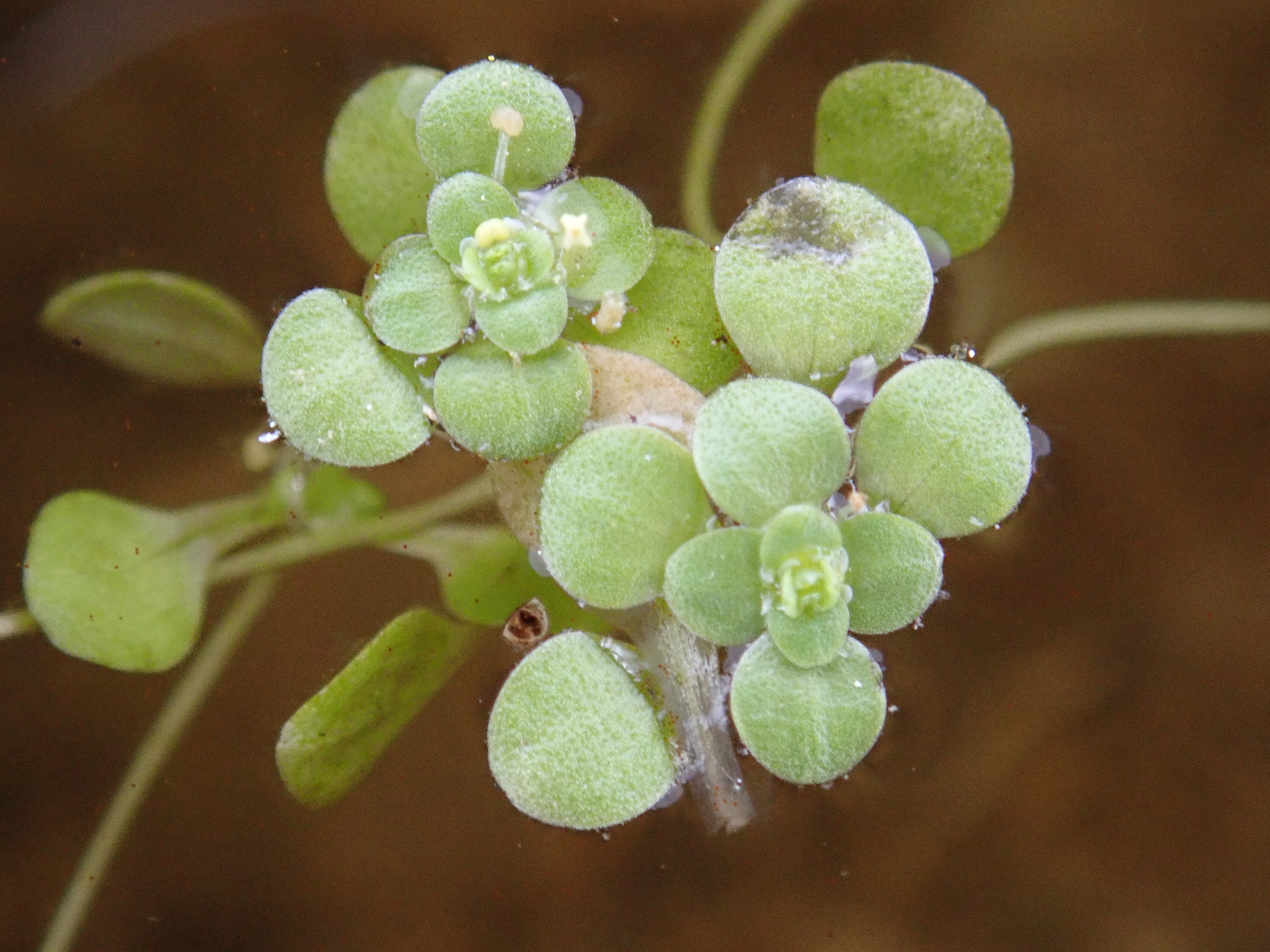 Narrow-fruited water-starwort (Callitriche palustris) with floating rosettes and (male) flowers in a pond at Hochwarter Alm (Carinthia, Austria), 1570 m